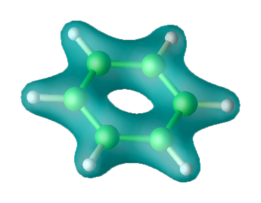 Ground state density of Benzene (C6H6), isosurface rho=0.1 [au]. Density calculated by octopus, image created using OpenDx.